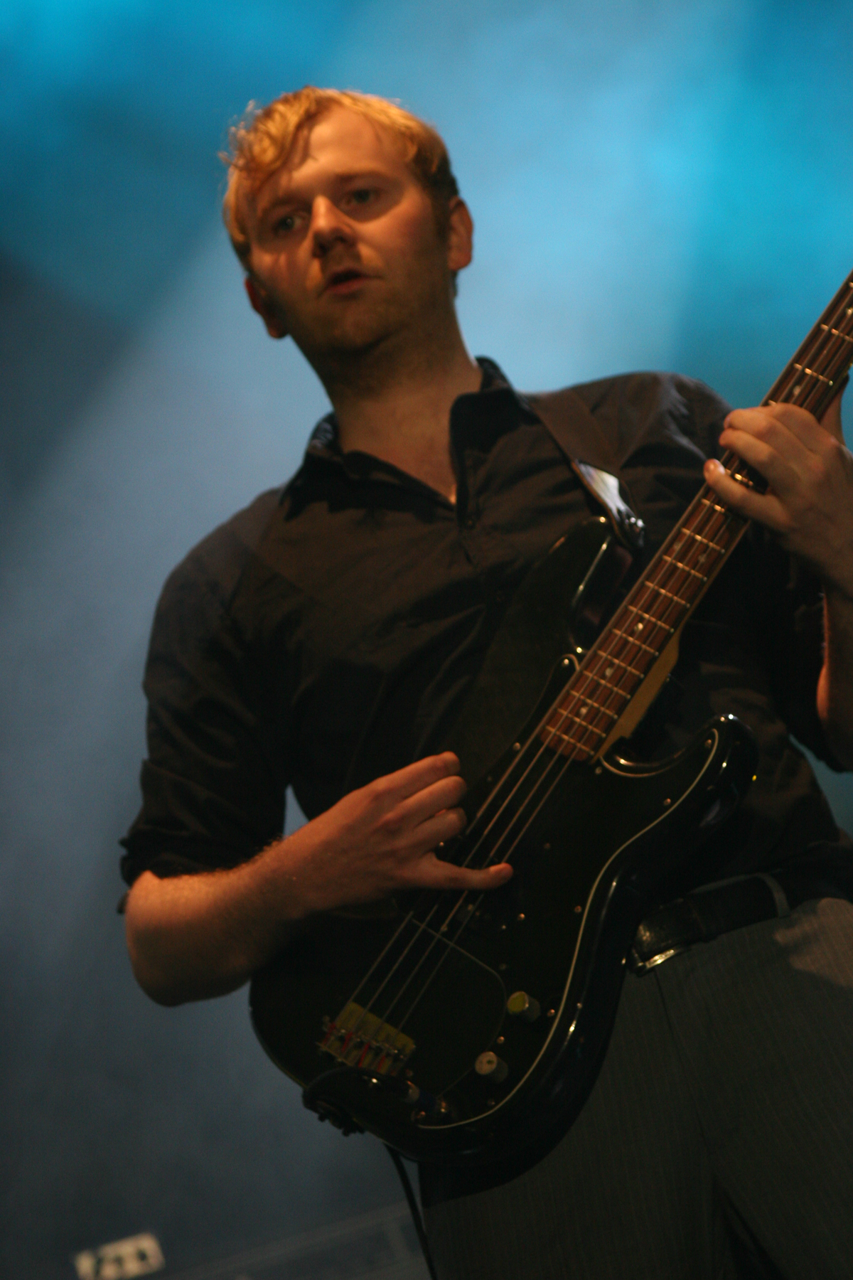 Bob Hardy Playing with Franz Ferdinand at Latitude Festival 2008